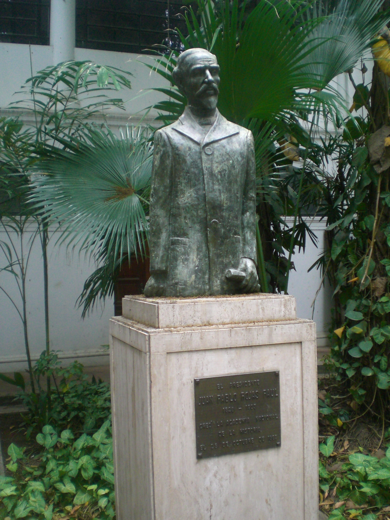 Bust of Venezuelan president Juan Pablo Rojas Paúl, founder of the Venezuelan Academy of History. Palace of the Academies, Caracas, Venezuela.